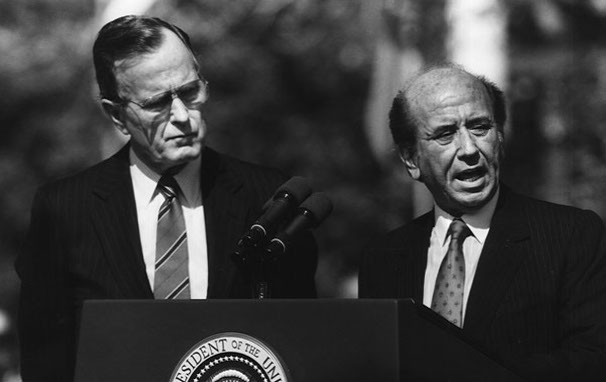 President Carlos Andrés Pérez appears with President George Bush (senior) during a visit to Washington